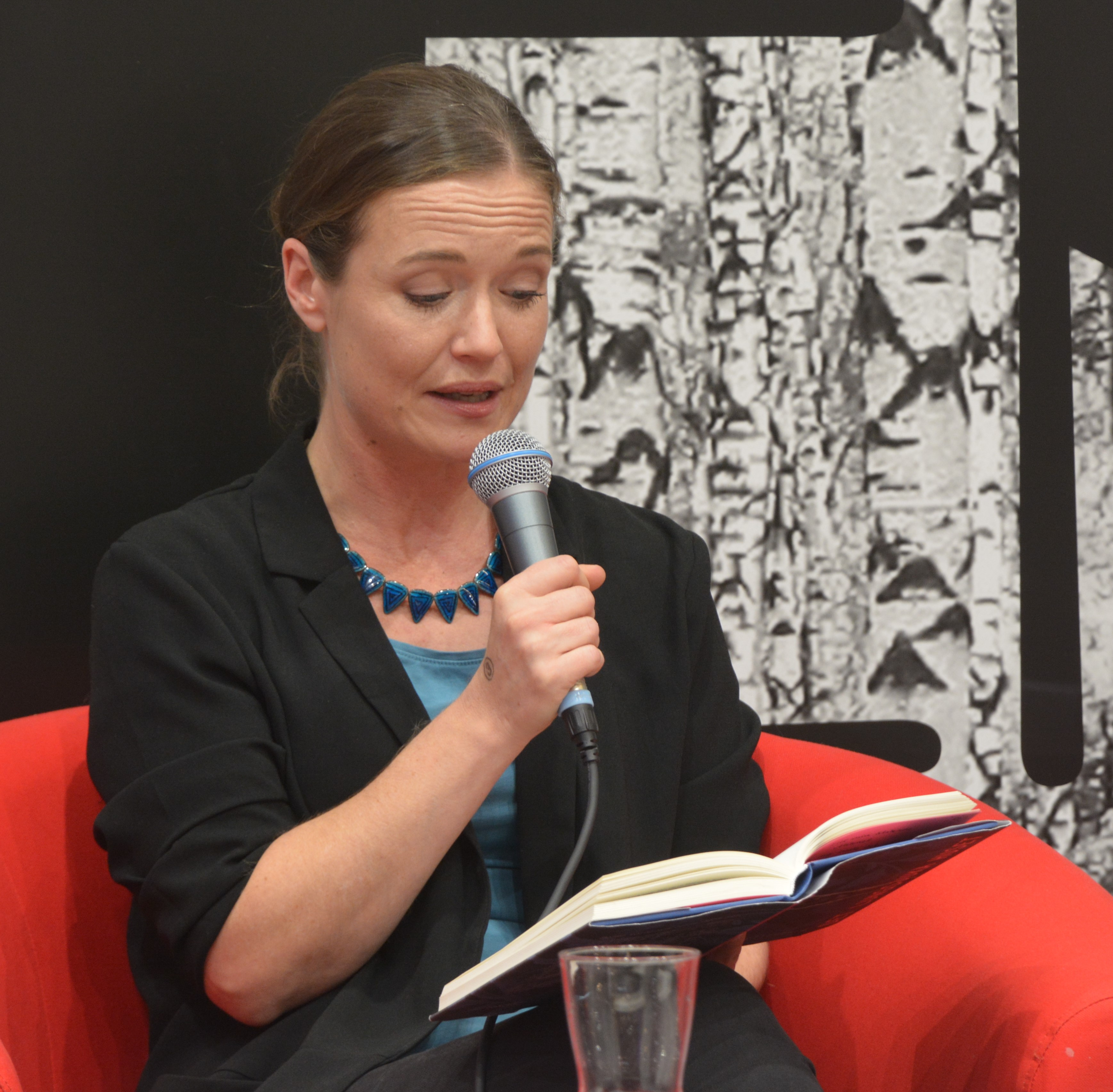 Matilda Gyllenberg reads from Det lungsjuka huset at Göteborg Book Fair 2019